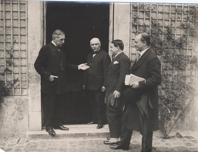 bourget 1924